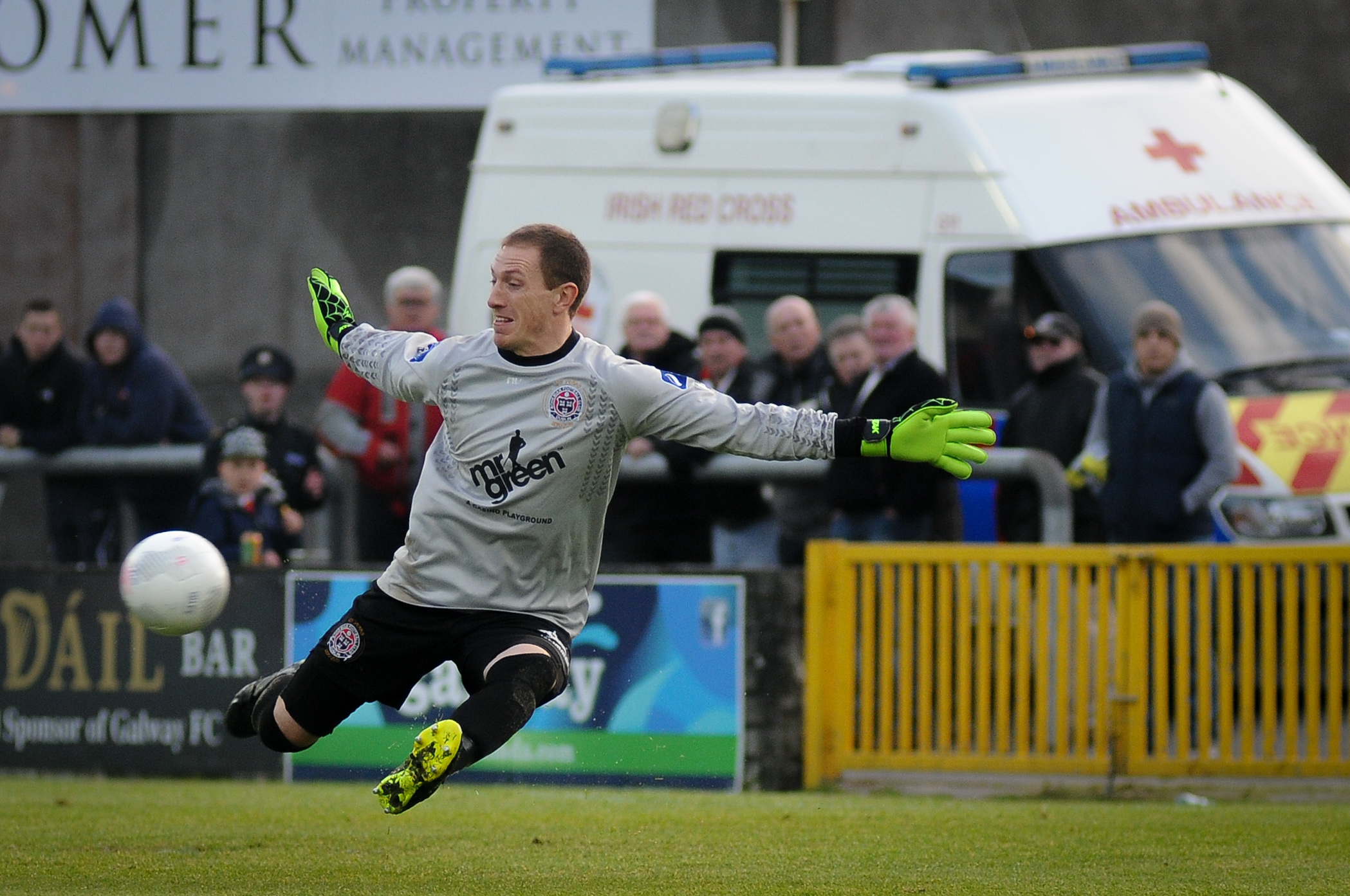 Dean Delaney of Bohemians in action against Galway United